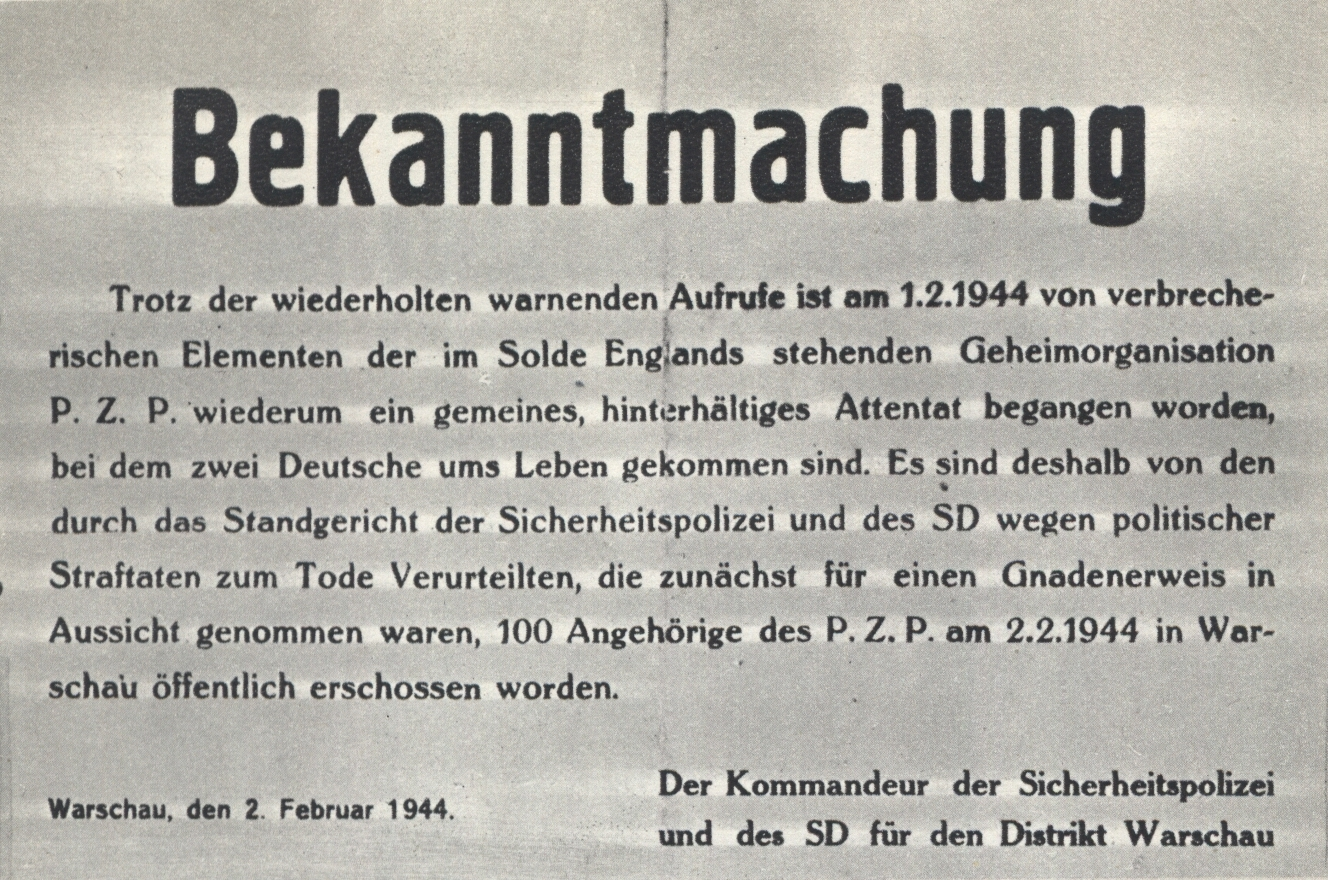 German announcement in occupied Poland (dated 2nd February 1944), signed by Commandant of SD and Sicherheitspolizei in Warsaw – SS-Obersturmbannführer Ludwig Hahn, informing about the execution of 100 of Polish hostages as a reprisal for death of 2 Germans in Warsaw. In fact those hostages were executed in retaliation of death of SS and Police Leader in Warsaw, SS-Brigadeführer Franz Kutschera, who was killed by soldiers of Armia Krajowa on 1st February 1944.